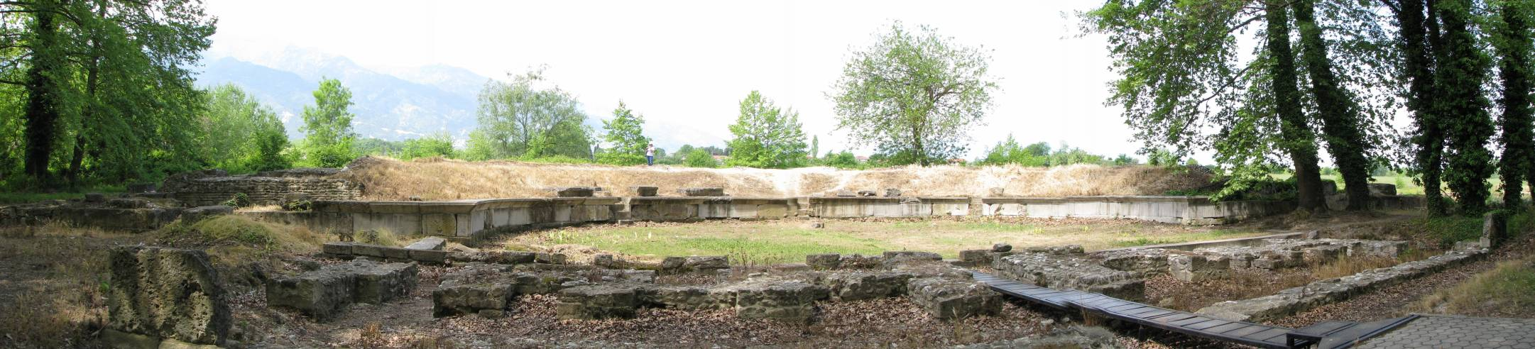 the Archaeological site at Dion